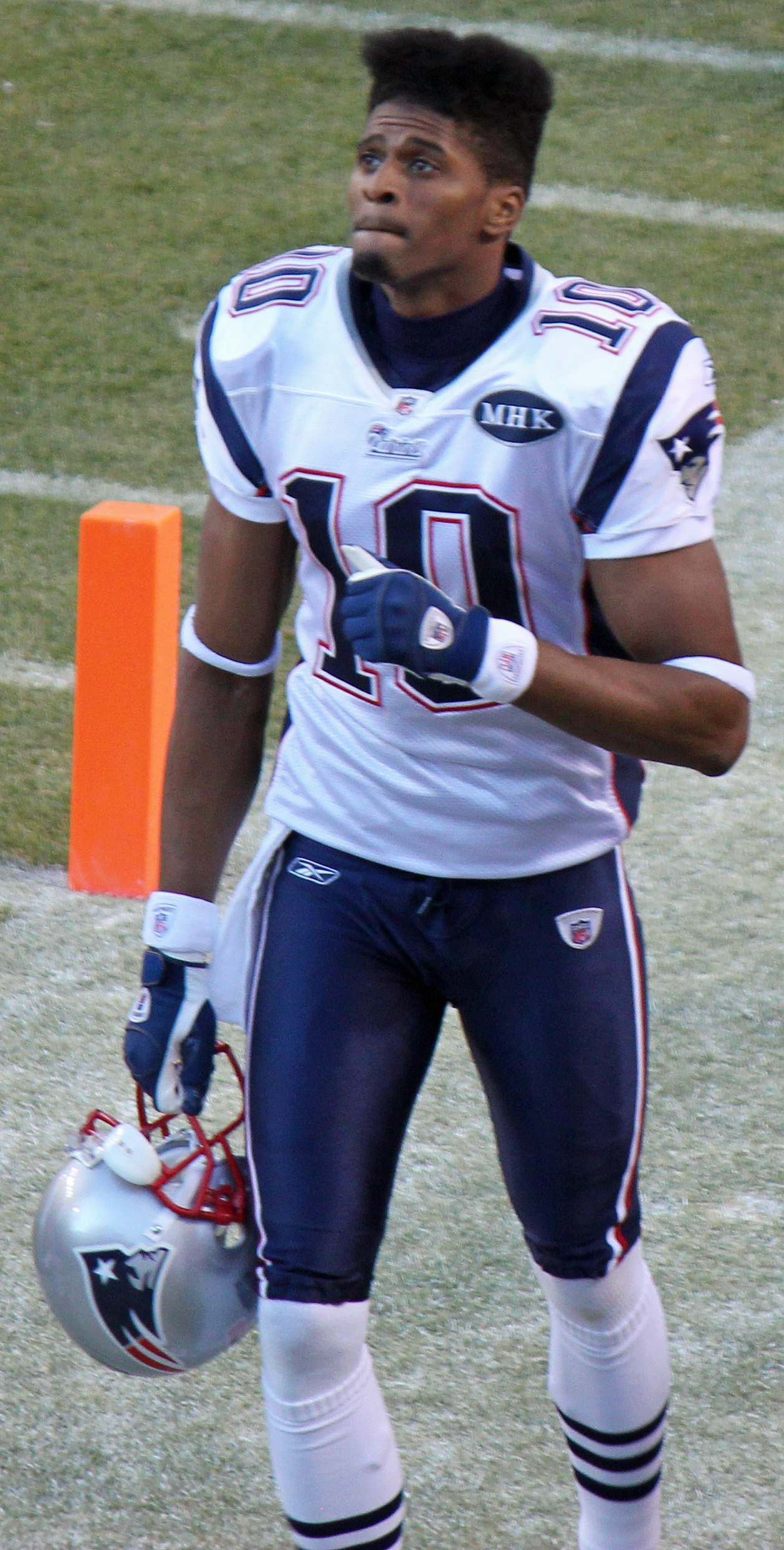 Tiquan Underwood, a player on the National Football League.